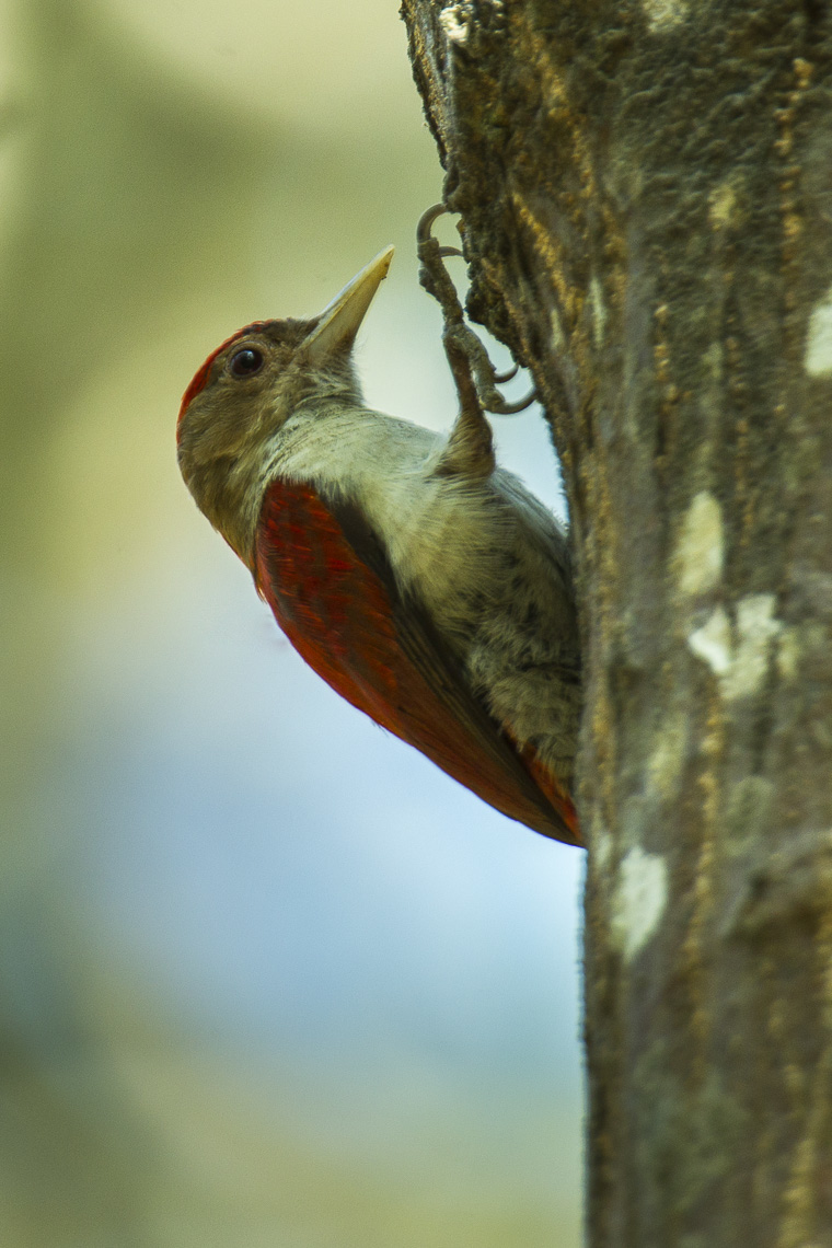 Scarlet-backed Woodpecker - Ecuador_S4E7608